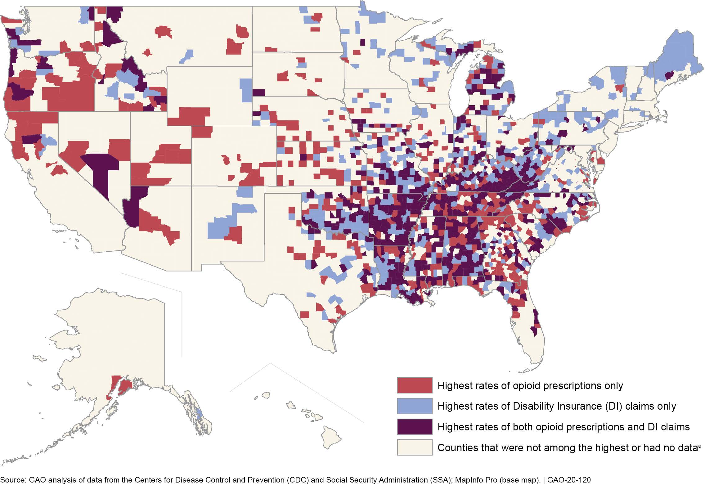 This image is excerpted from a U.S. GAO report: SOCIAL SECURITY DISABILITY: Action Needed to Help Agency Staff Understand and Follow Policies Related to Prescription Opioid Misuse Note: The rate of opioid prescriptions refers to the number of opioid prescriptions dispensed by retail pharmacies per 100 people in a county, and the rate of Disability Insurance (DI) claims refers to the number of DI claims per 1,000 people in a county. Counties with the highest rates of opioid prescriptions and/or DI claims refer to those in the top third of the statistical distribution for each rate. The rates of DI claims do not include DI/Supplemental Security Income (SSI) concurrent claims. We analyzed DI/SSI concurrent claims in a separate analysis and generally observed similar results. ᵃWe had data available on both rates of opioid prescriptions and DI claims for 2,953 out of 3,142 counties nationwide in 2017 (i.e., we did not have data for 189 counties).